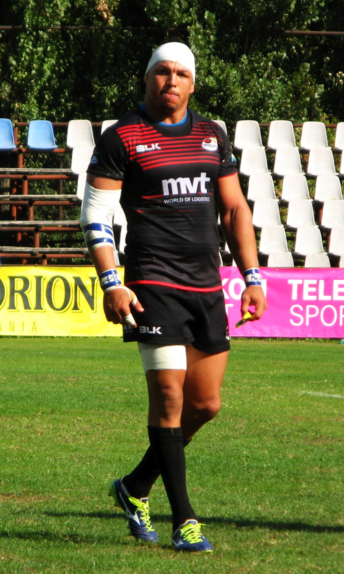 South-African born Romanian International Randall Morrison, rugby union player of Timișoara Saracens rugby club seen during a match against CSA Steaua București in Round 3 of Romanian Rugby SuperLiga in September 2018